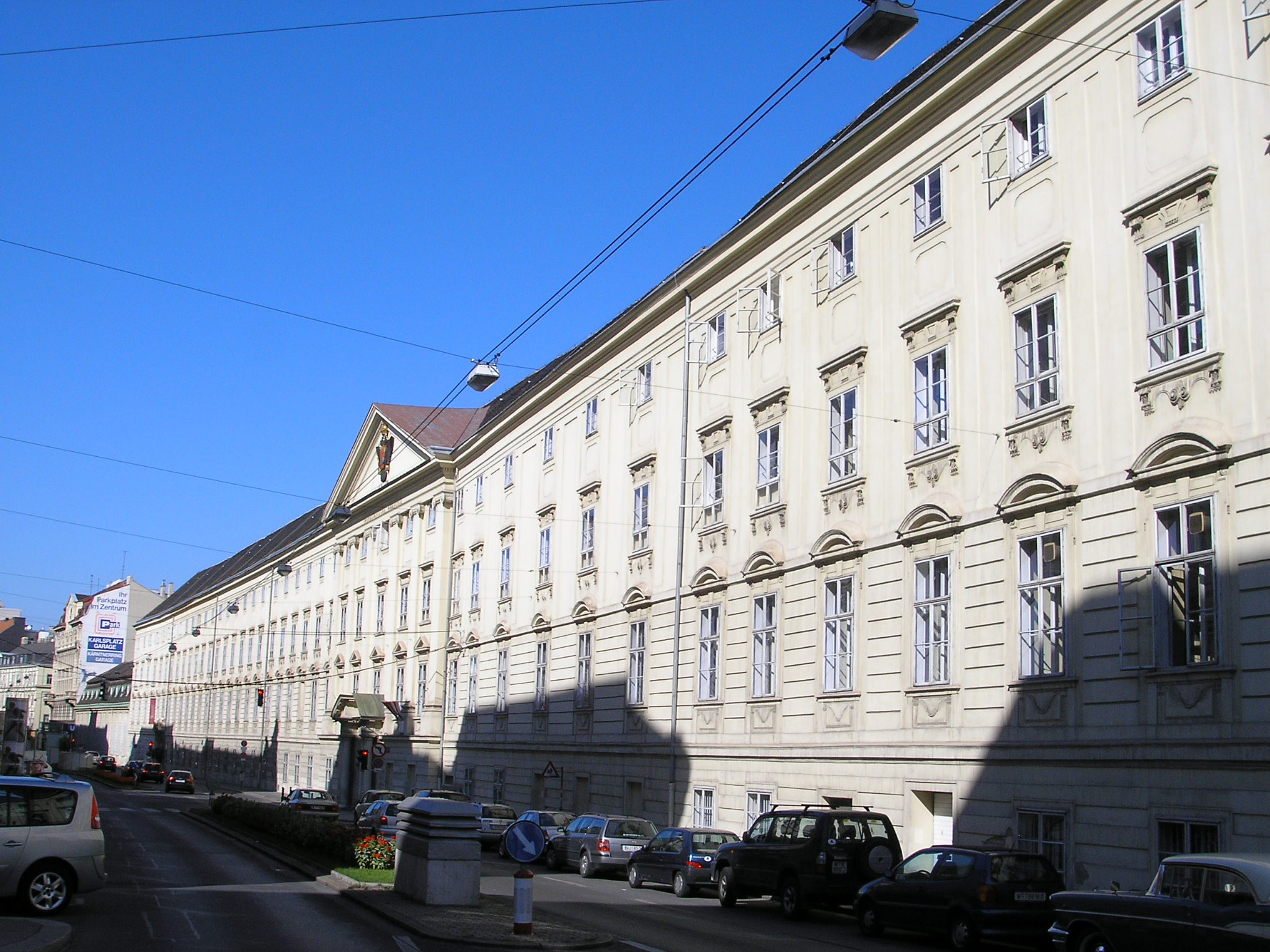 Image of the Alte Favorita palace, built for Empress Maria Theresia of Austria, today housing the elite Theresianum Gymnasium and the Diplomatic Academy of Vienna. Building is therefore sometimes also known generally as Theresianum.